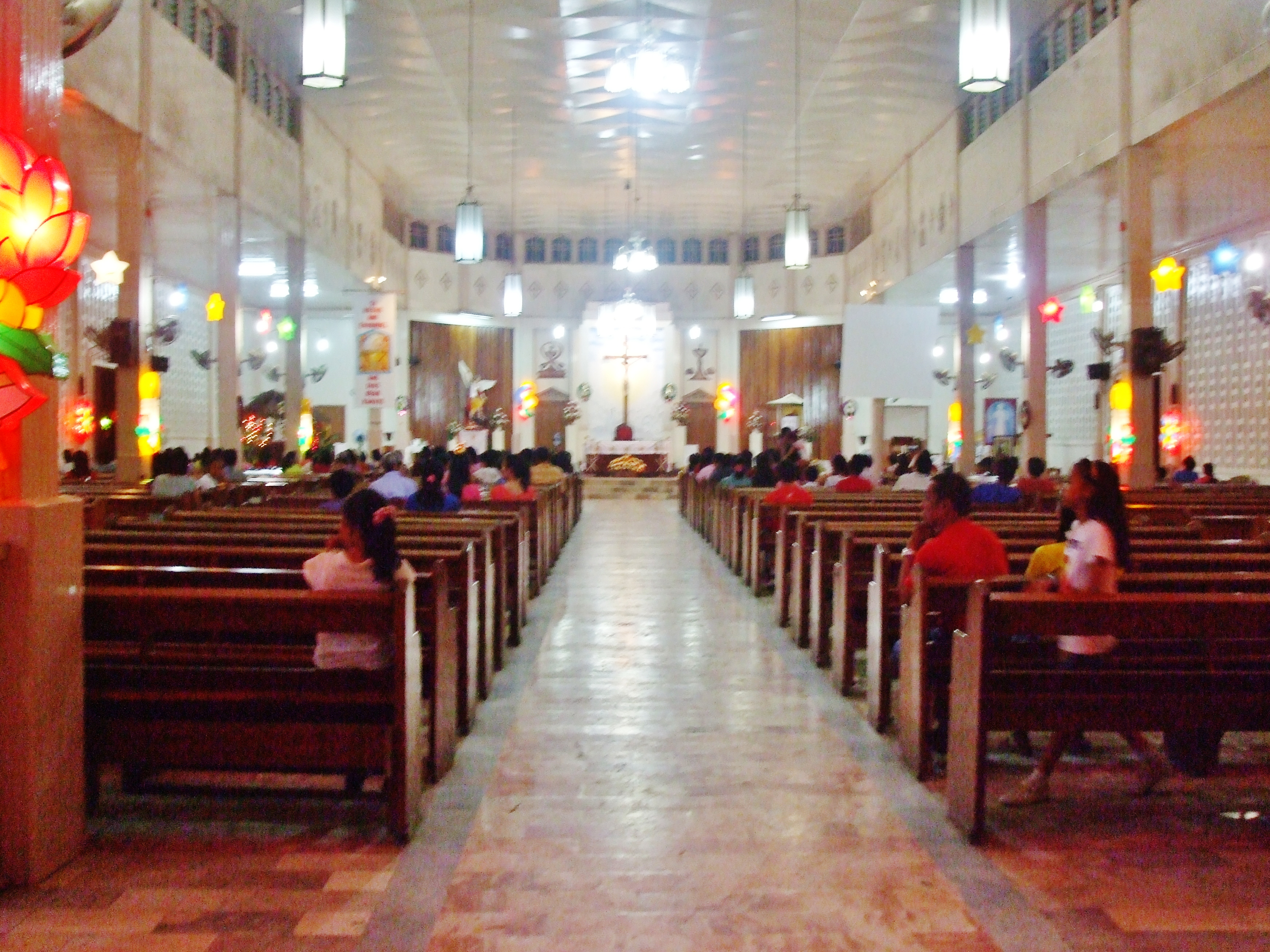 Inside the Church